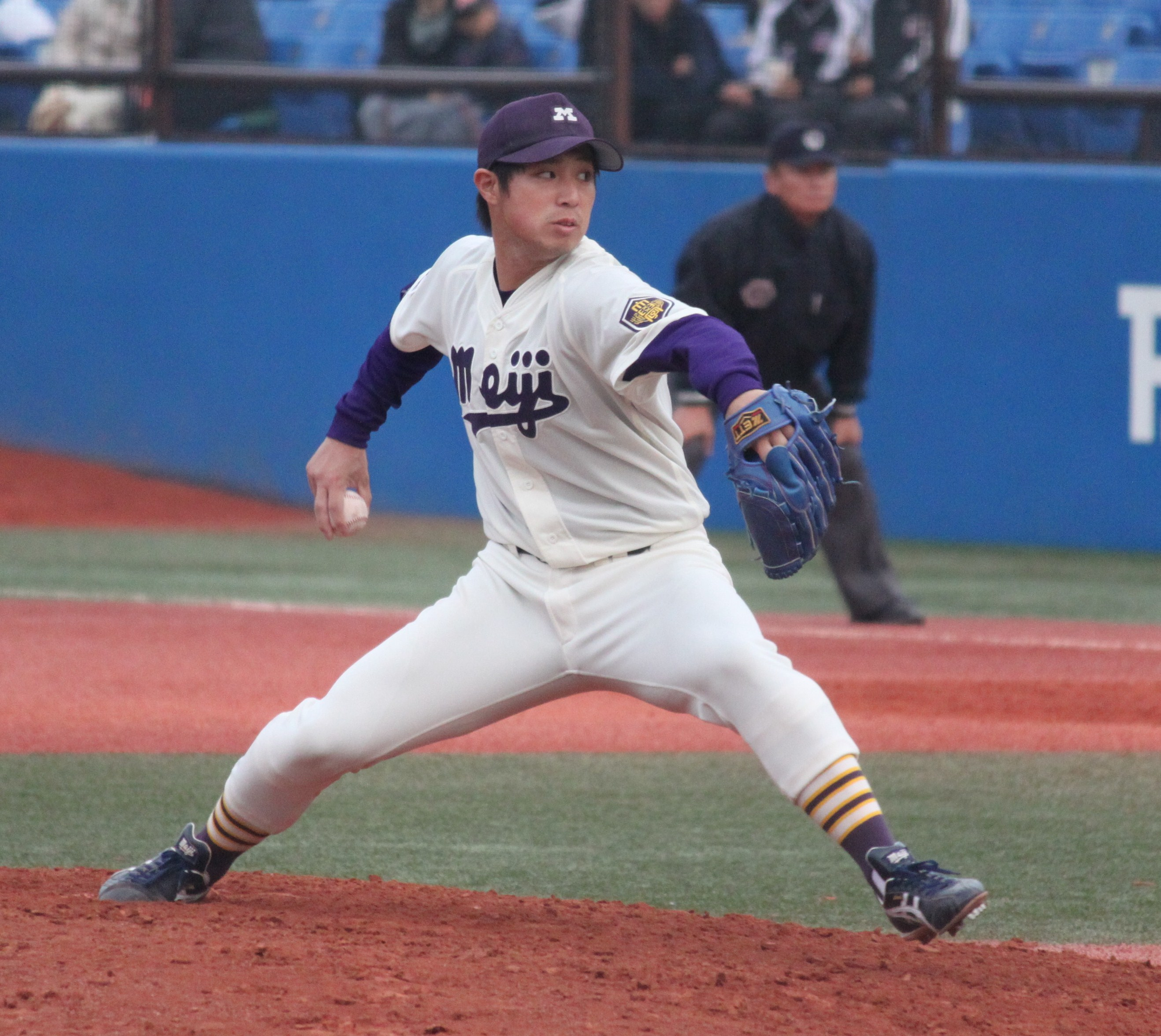 Yusuke Nomura, pitcher of the Meiji University Baseball Club, at Meiji Jingu Stadium.